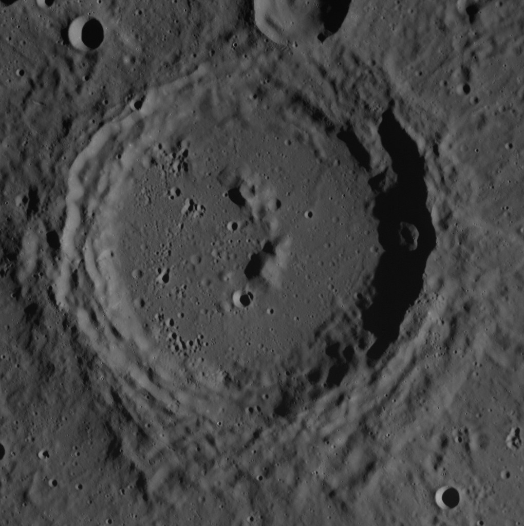 Tung Yüan crater on Mercury. North is to the upper left. Emission Angle: 0.17 Incidence Angle: 75.9 Latitude: 75.0 Longitude: 296.9 Phase Angle: 75.9